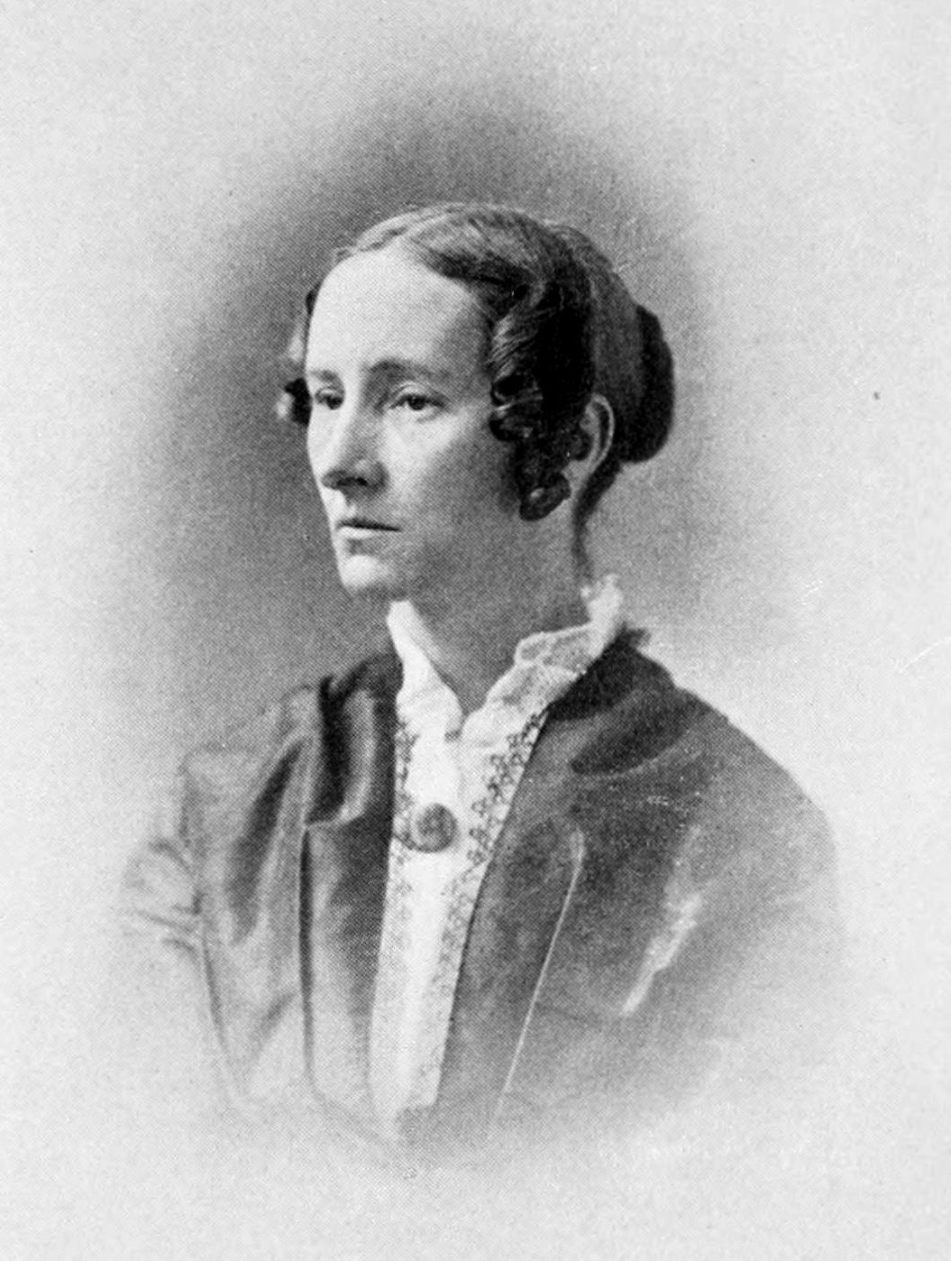 Porträt Anna Bartlett Warner In: Susan Warner („Elizabeth Wetherell“) By Anna. B. Warner. G. P. Putman’s Sons, New York and London 1909